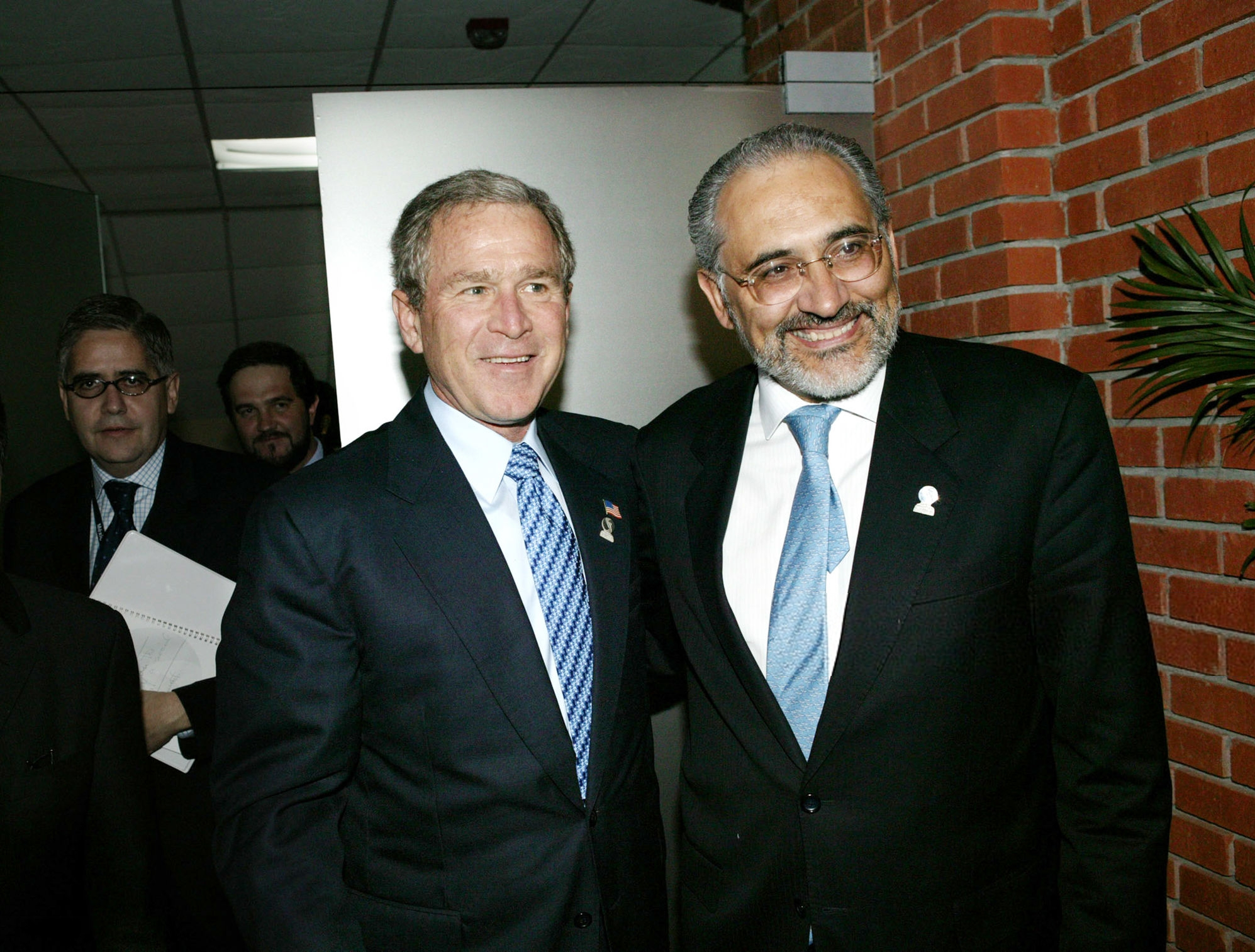 President George W. Bush meets with President Carlos Mesa of Bolivia in Monterrey, Mexico, Tuesday, Jan. 13, 2004. White House Photo by Eric Draper